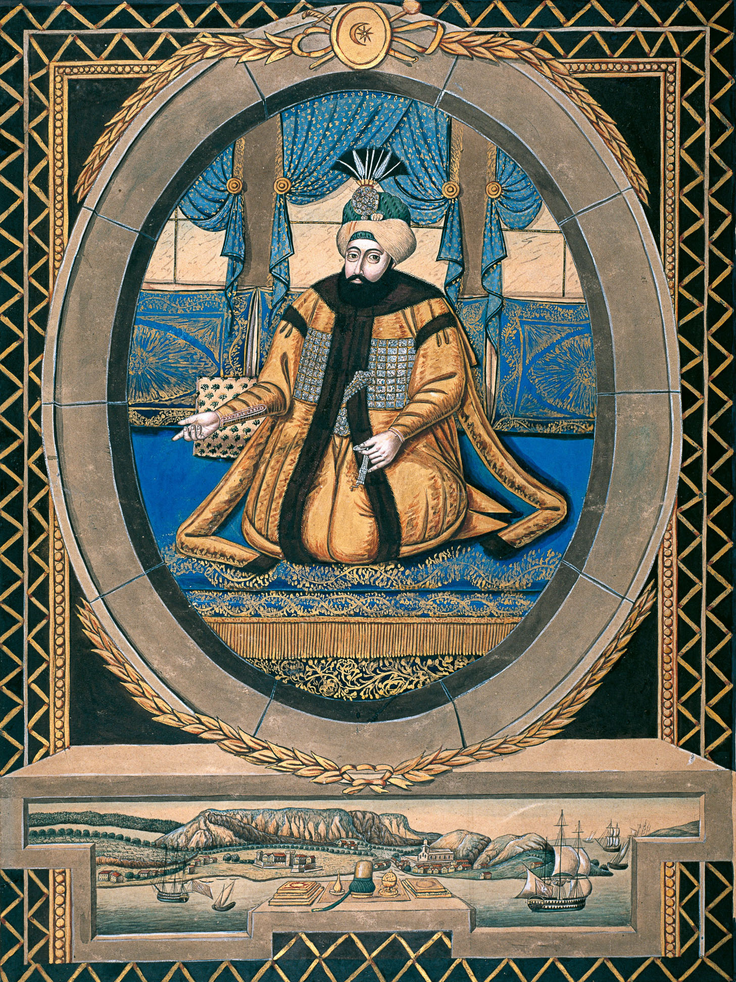 Portrait Of Sultam Selim III